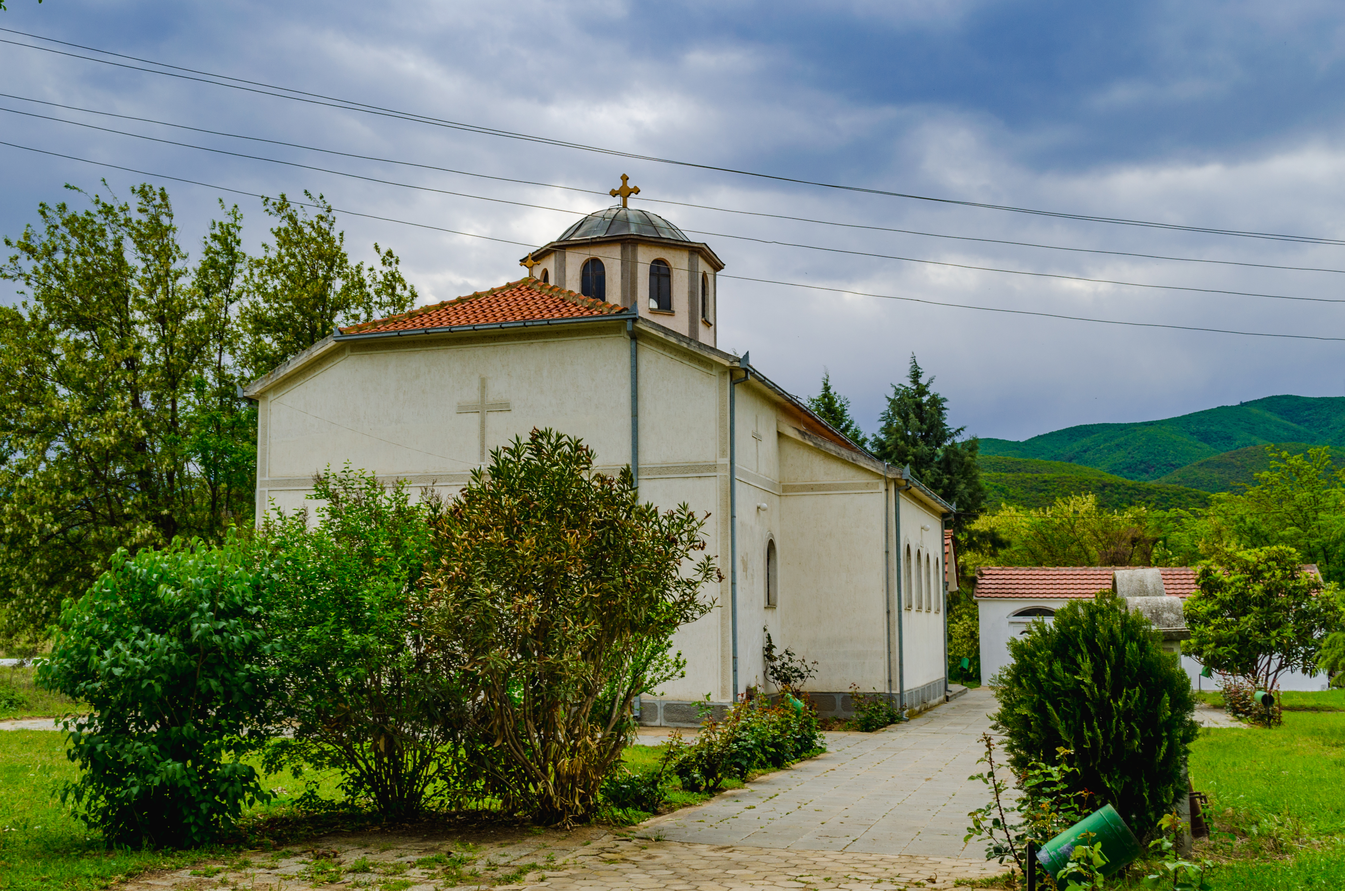 View of the St. Athanasius Church in the village Udovo